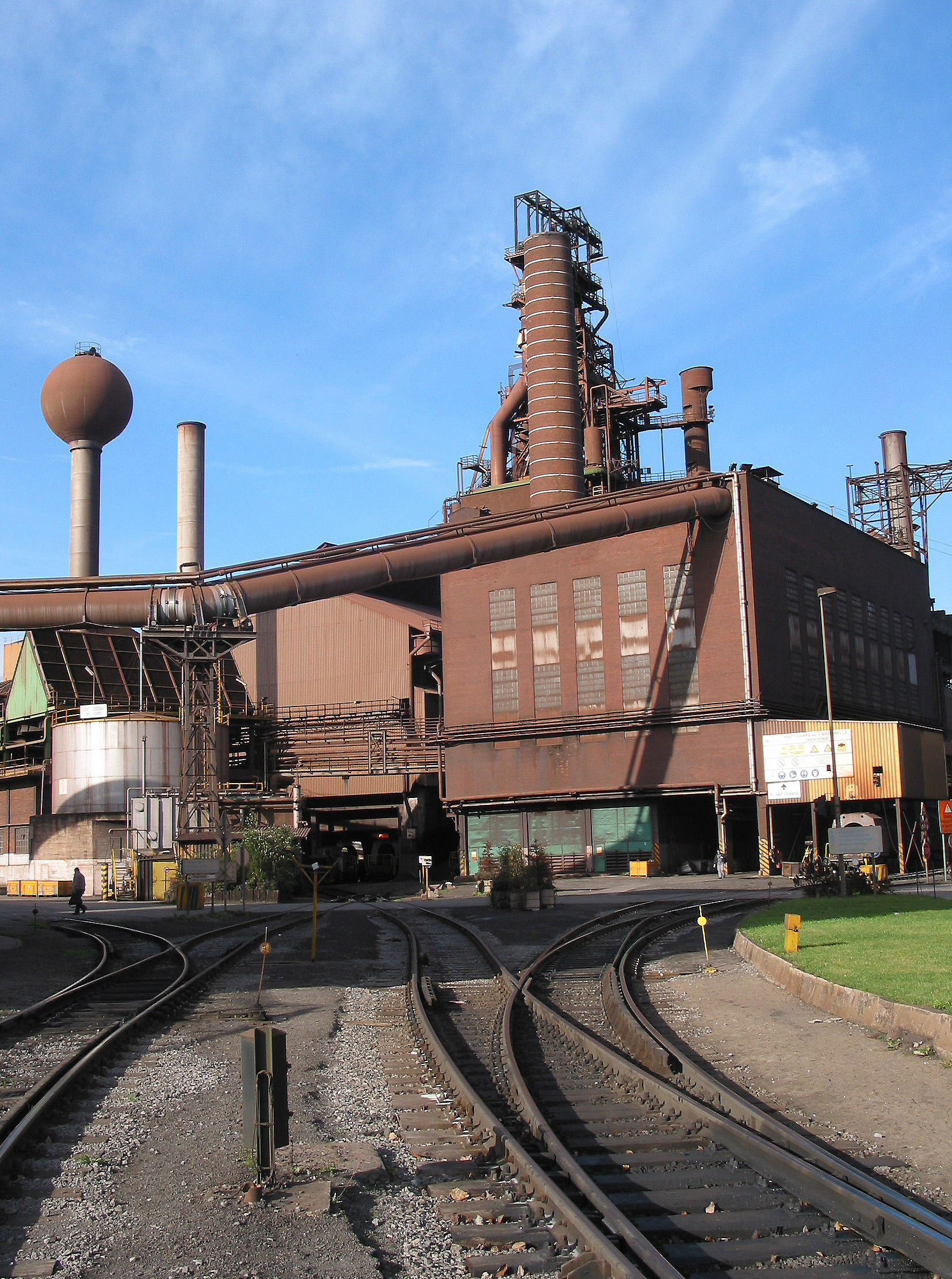 Marcinelle (Belgium), the blast furnace (CARCID-DUFERCO).